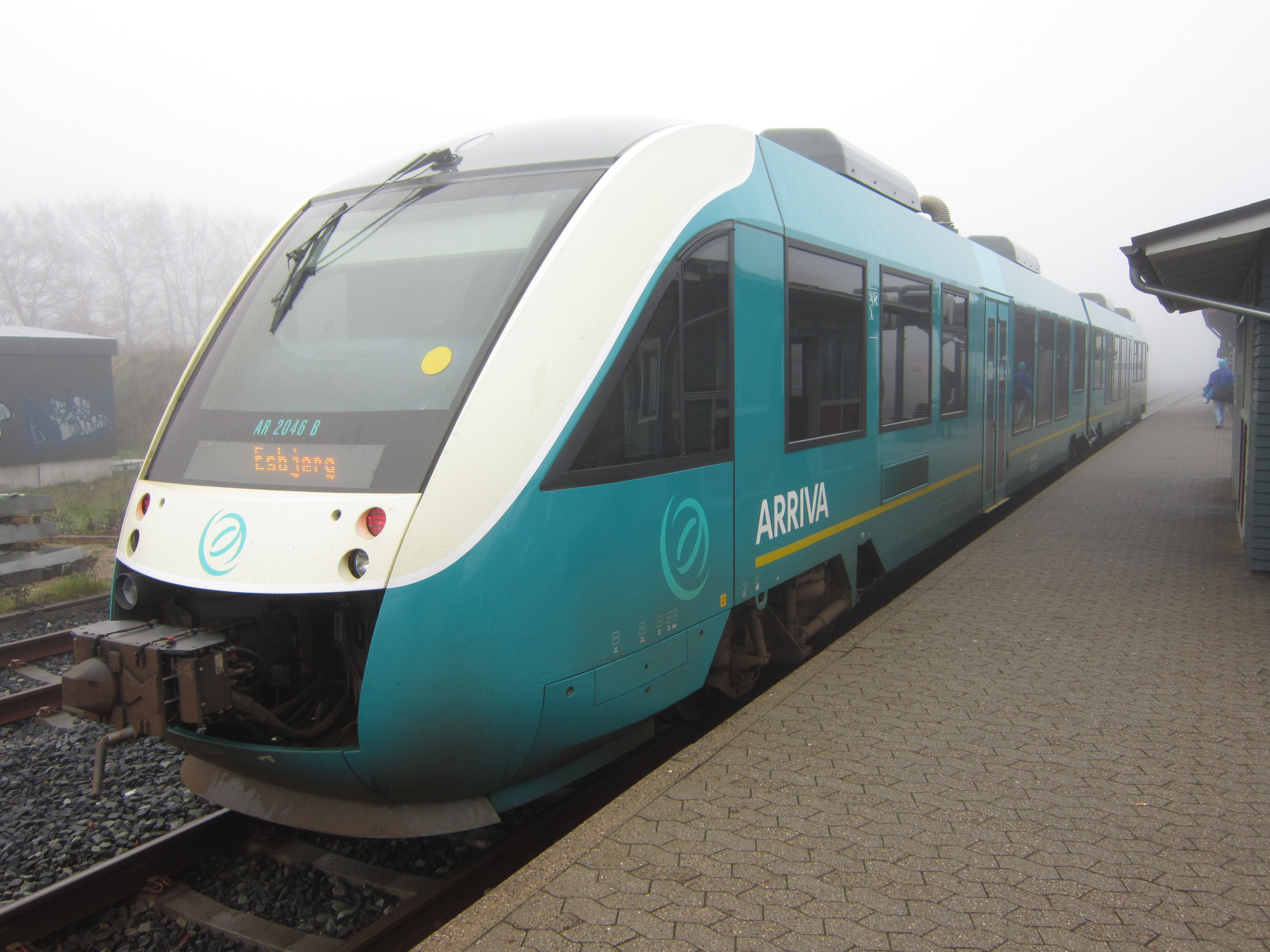 Alstom Coradia LINT by Arriva at Bramming station